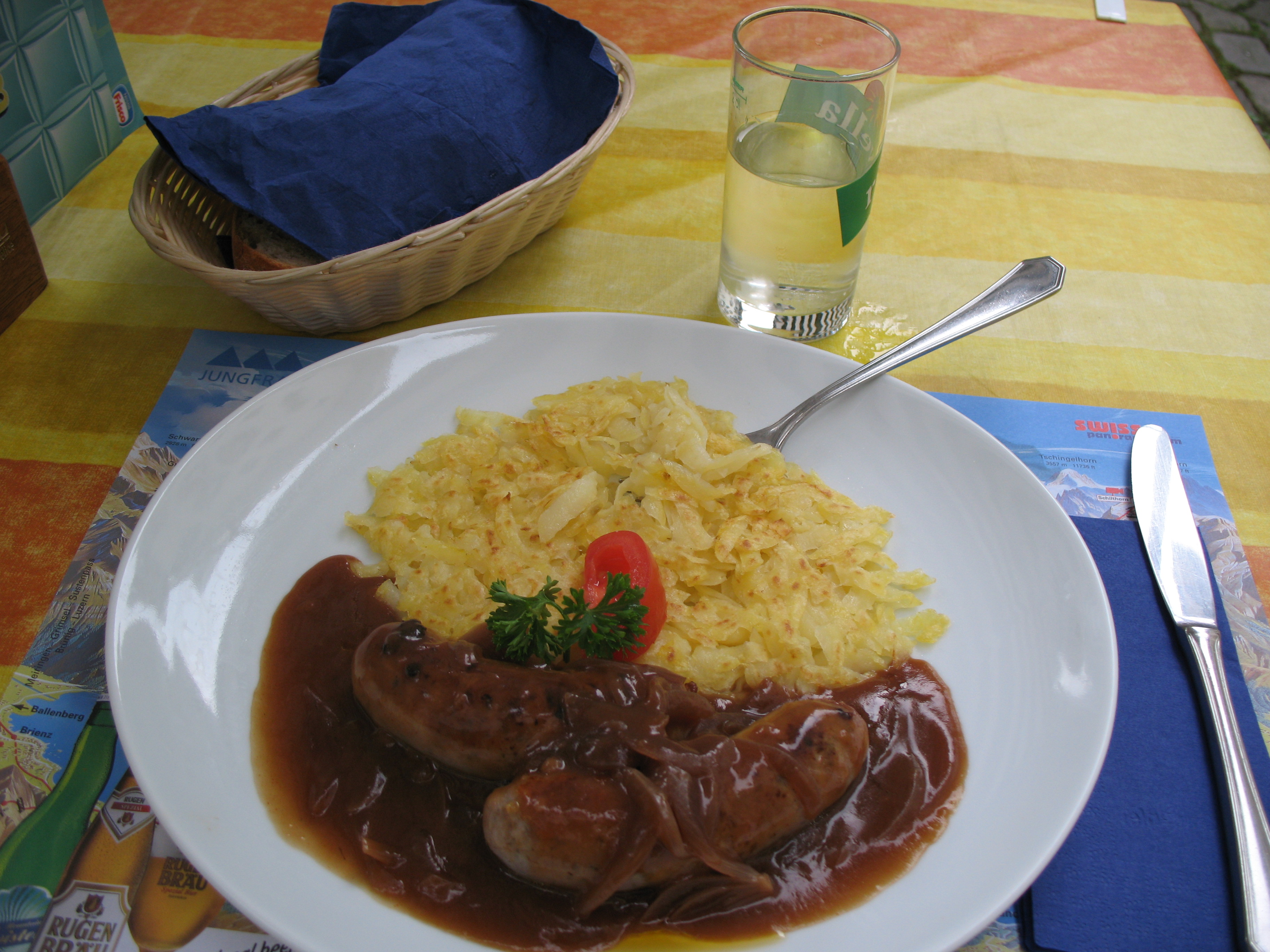 Sausage and potatoes from a restaurant on City Hall Square, Berne, Switzerland